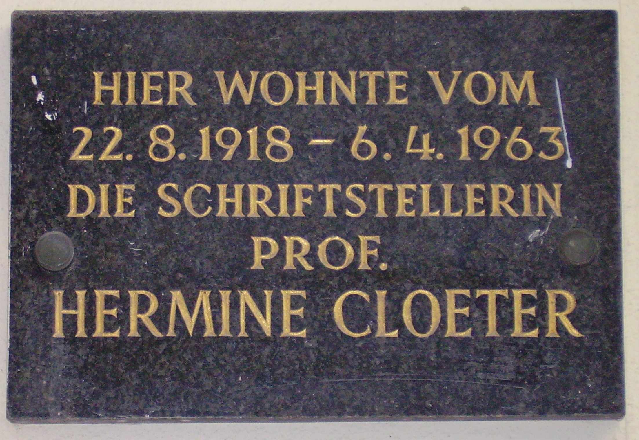 Memorial plaque Hermine Cloeter 1879-1970, Viennese author and historian